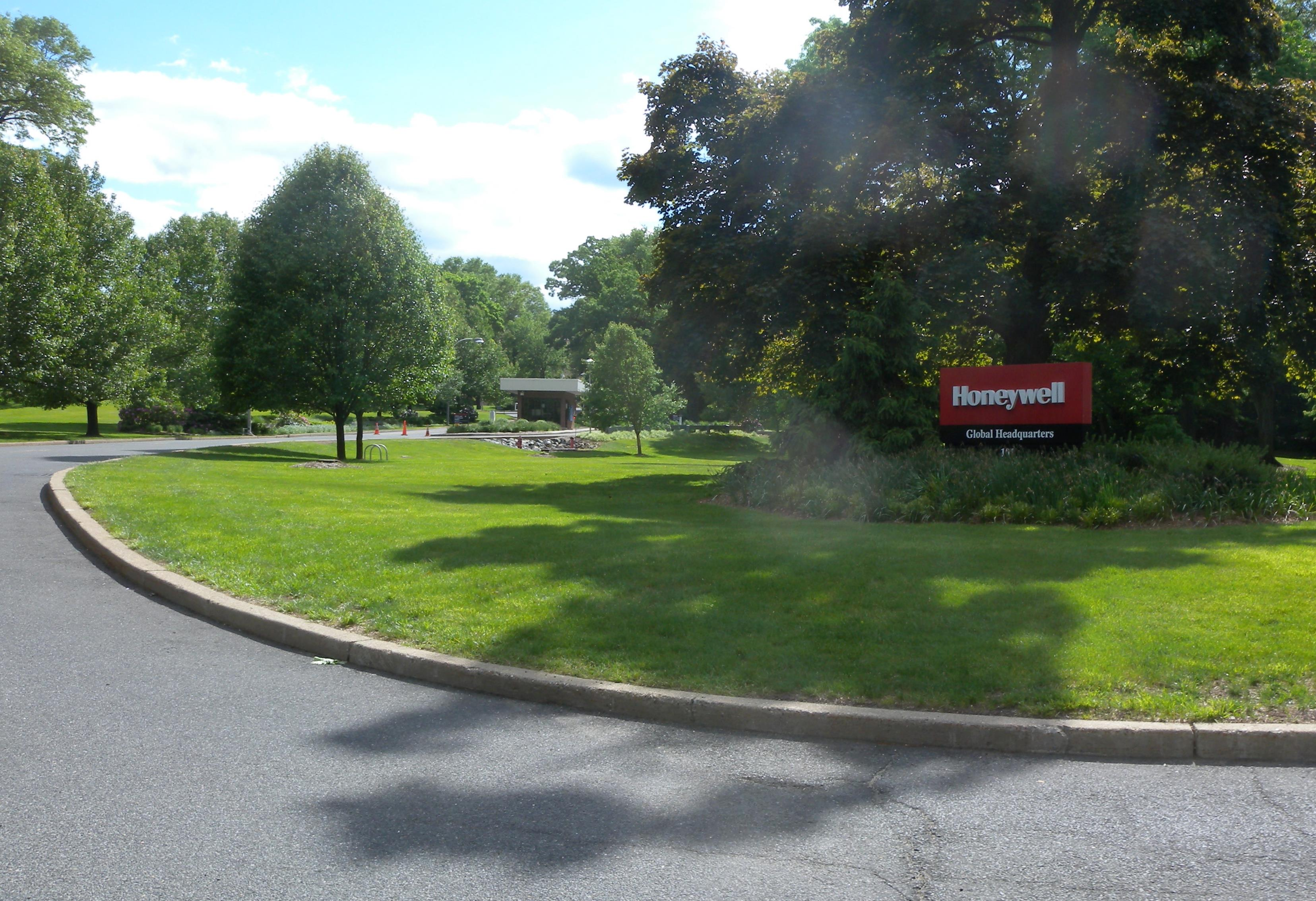 Looking southwest at entry driveway of Honeywell Global Headquarters on a mostly sunny afternoon.